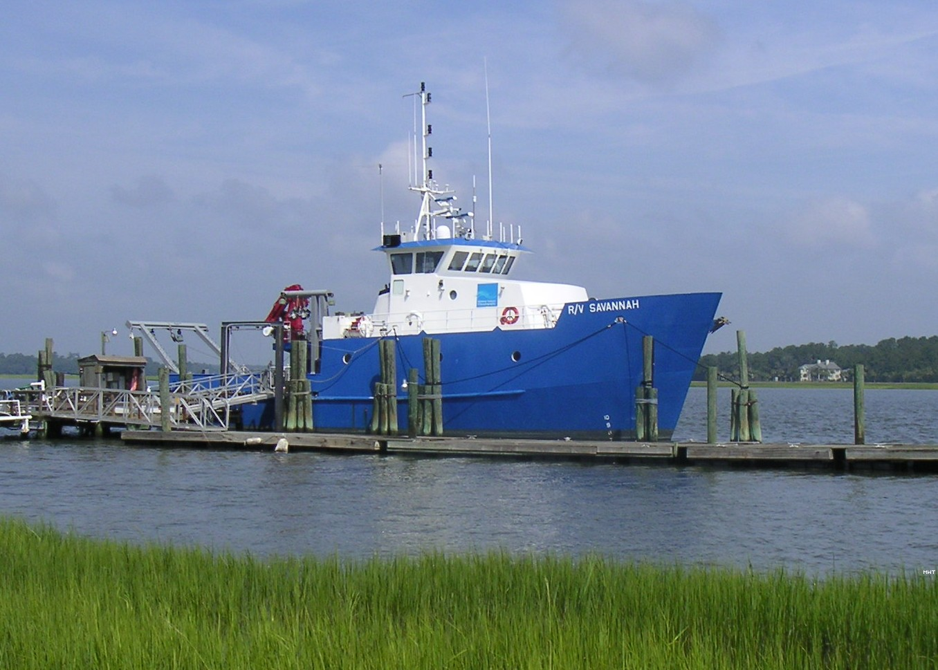 The R/V Savannah at its home dock at the Skidaway Institute of Oceanography, Skidaway Island, Georgia, USA.